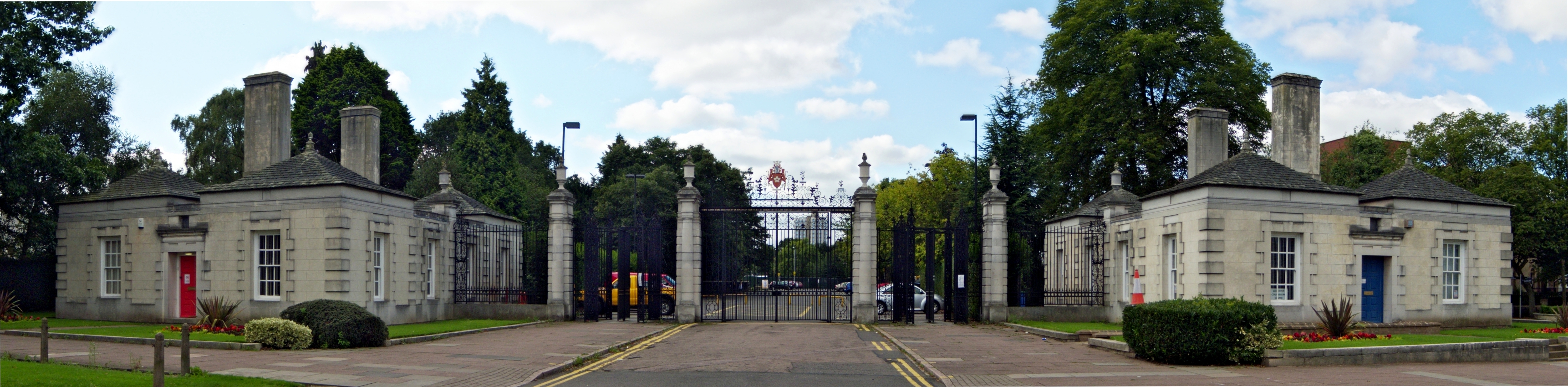 Panorama of the Grade II* listed gates of Victoria Park, Leicester.